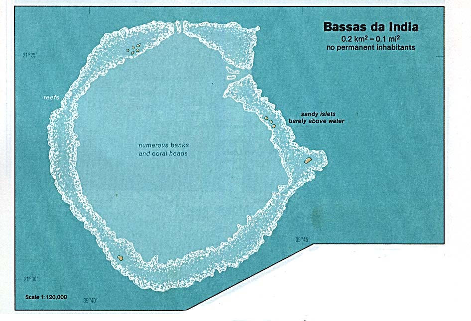 Map of Bassas da India Atoll in the Indian Ocean